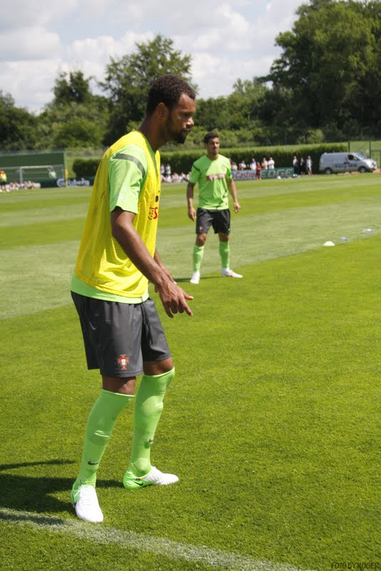 Rolando training with Portugal on 23 June 2012.